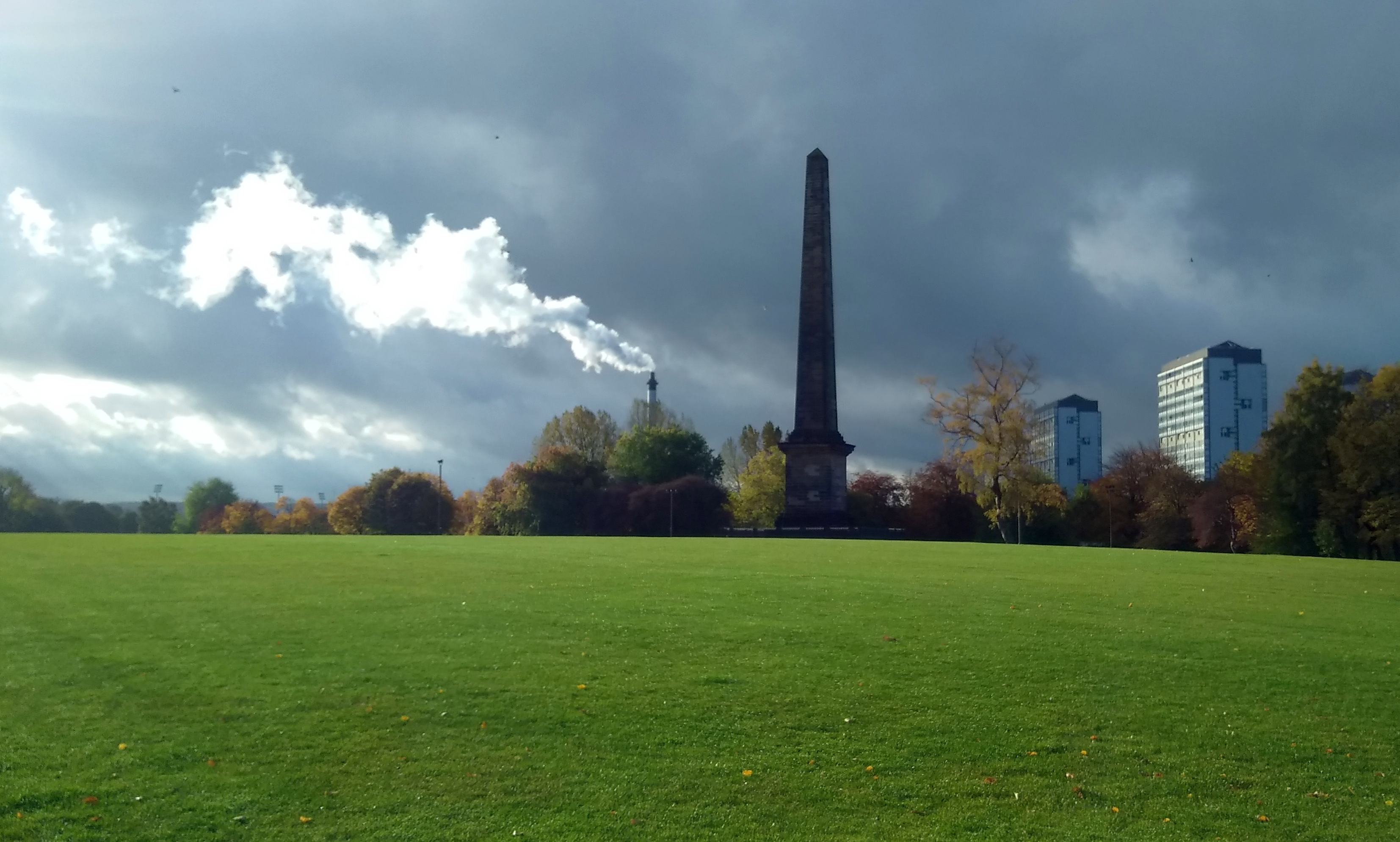 Glasgow Green, october 2019